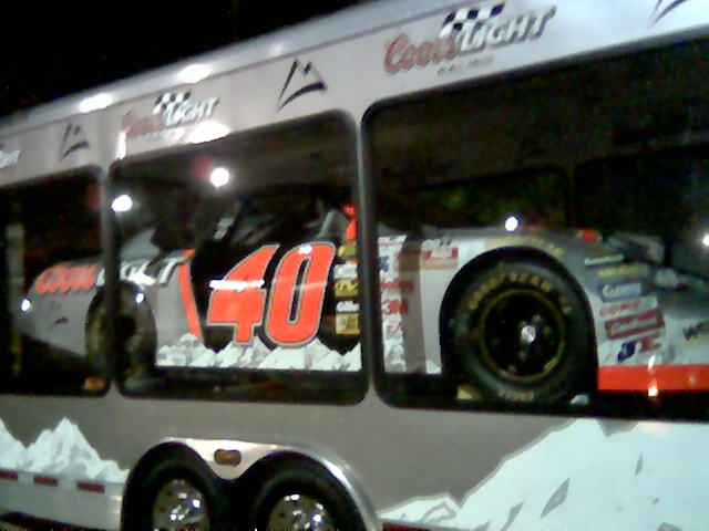 The #40 Dodge driven by David Stremme on a hauler.